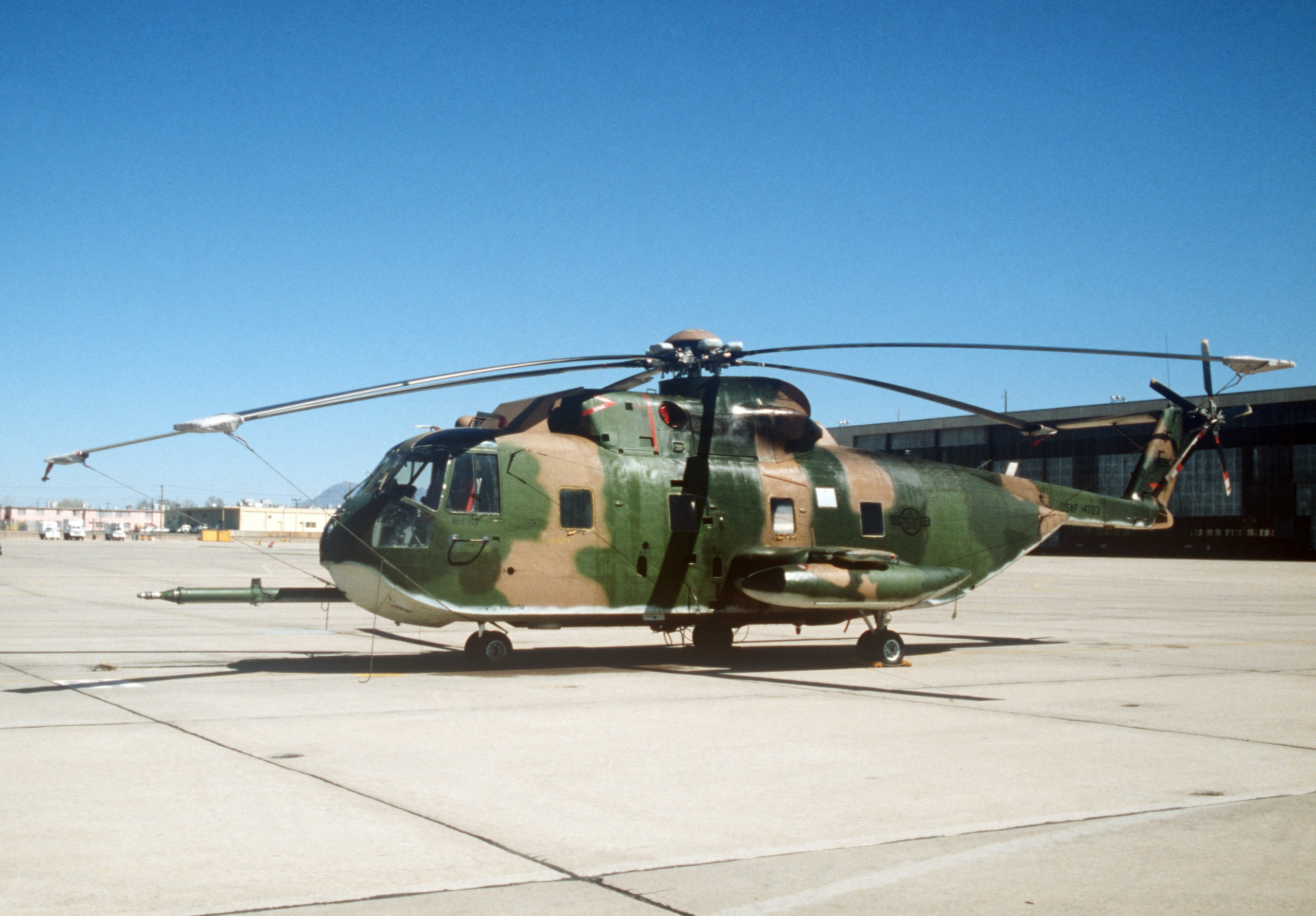 A U.S. Air Force Sikorsky HH-3E Jolly Green Giant helicopter (s/n 67-14723) at Kirtland Air Force Base, New Mexico (USA), on 21 March 1980.